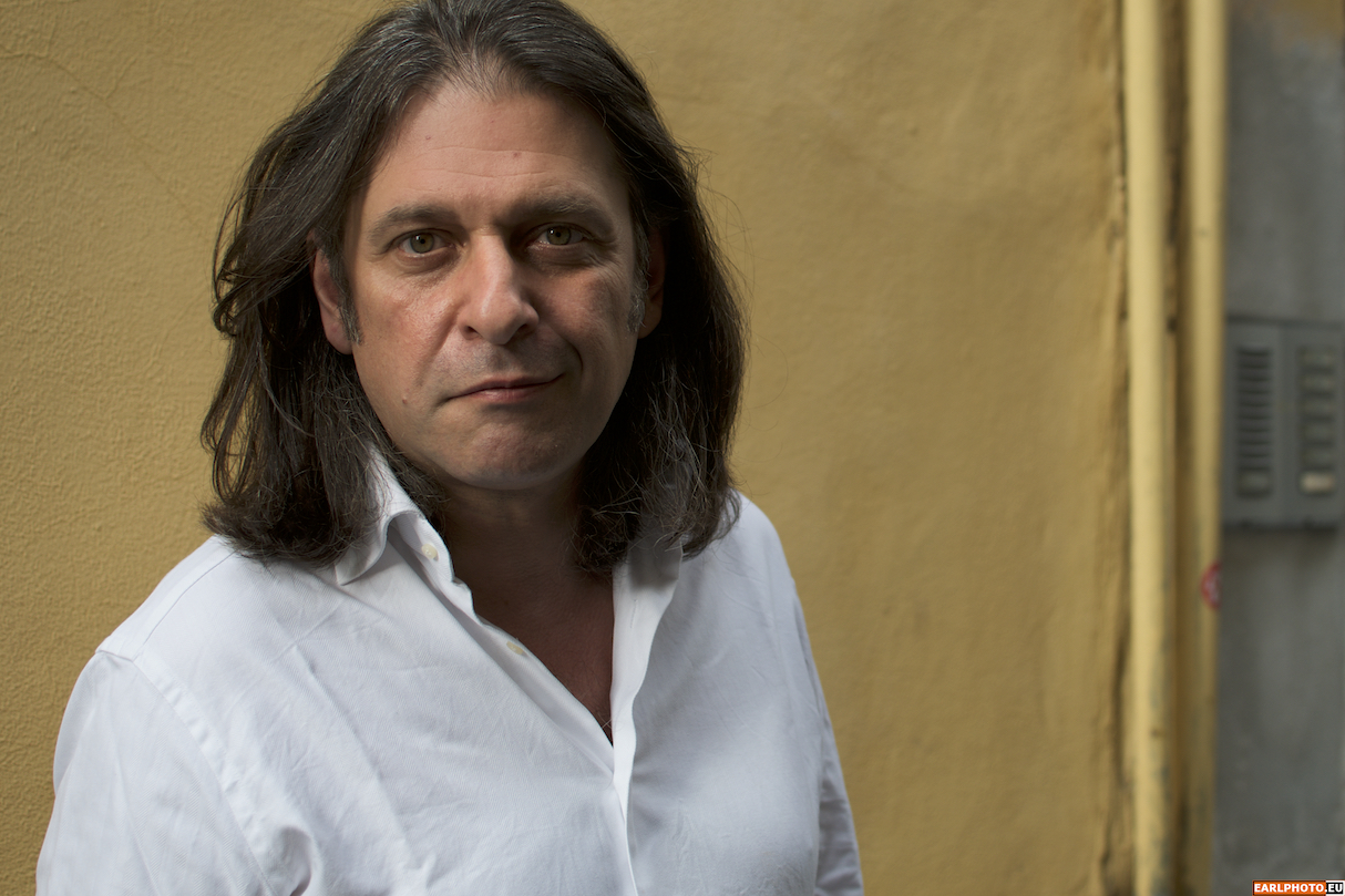 Maestro Sandro Ivo Bartoli